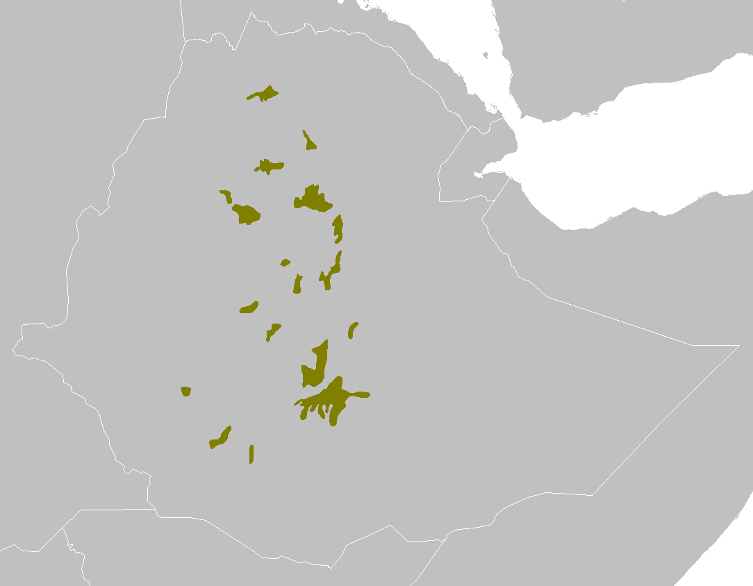 Ethiopian montane moorlands ecoregion map